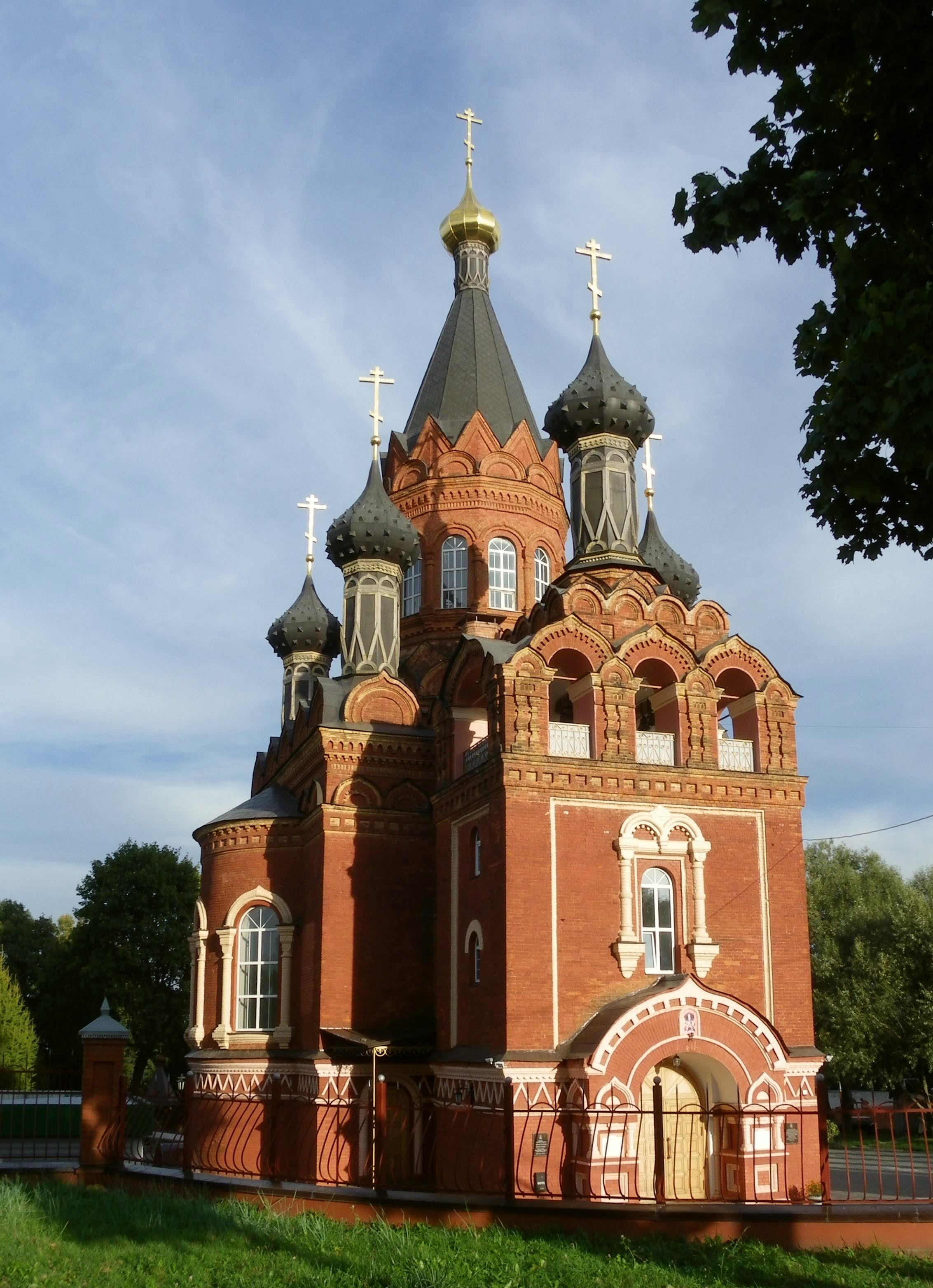 The Spaso-Grobovskaya ("Savior on the bishops' coffins") church in Bryansk, Russia